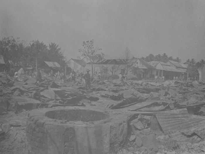 The havoc after a fire in Sibolga